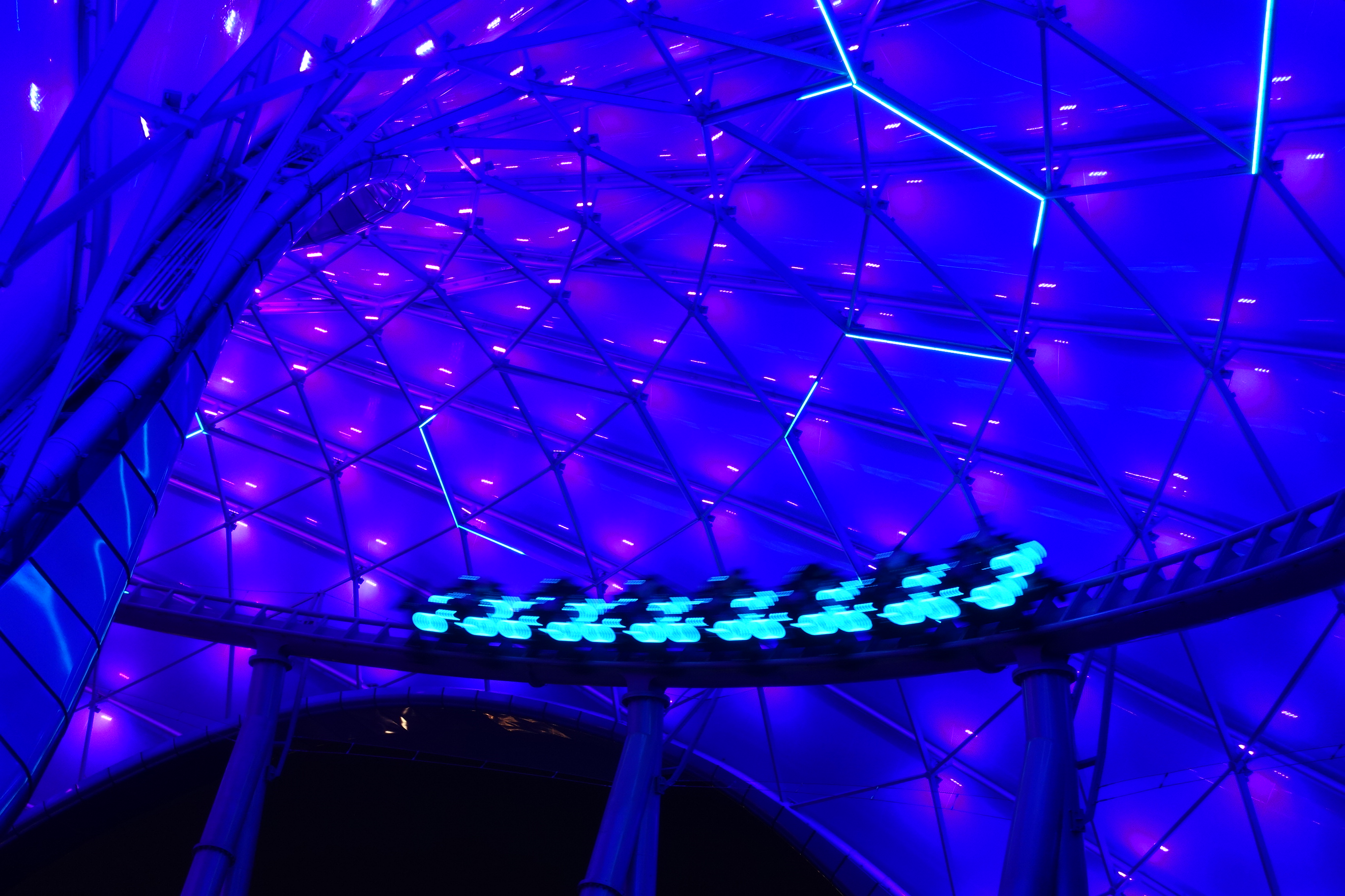 Tron Lightcycles Power Run